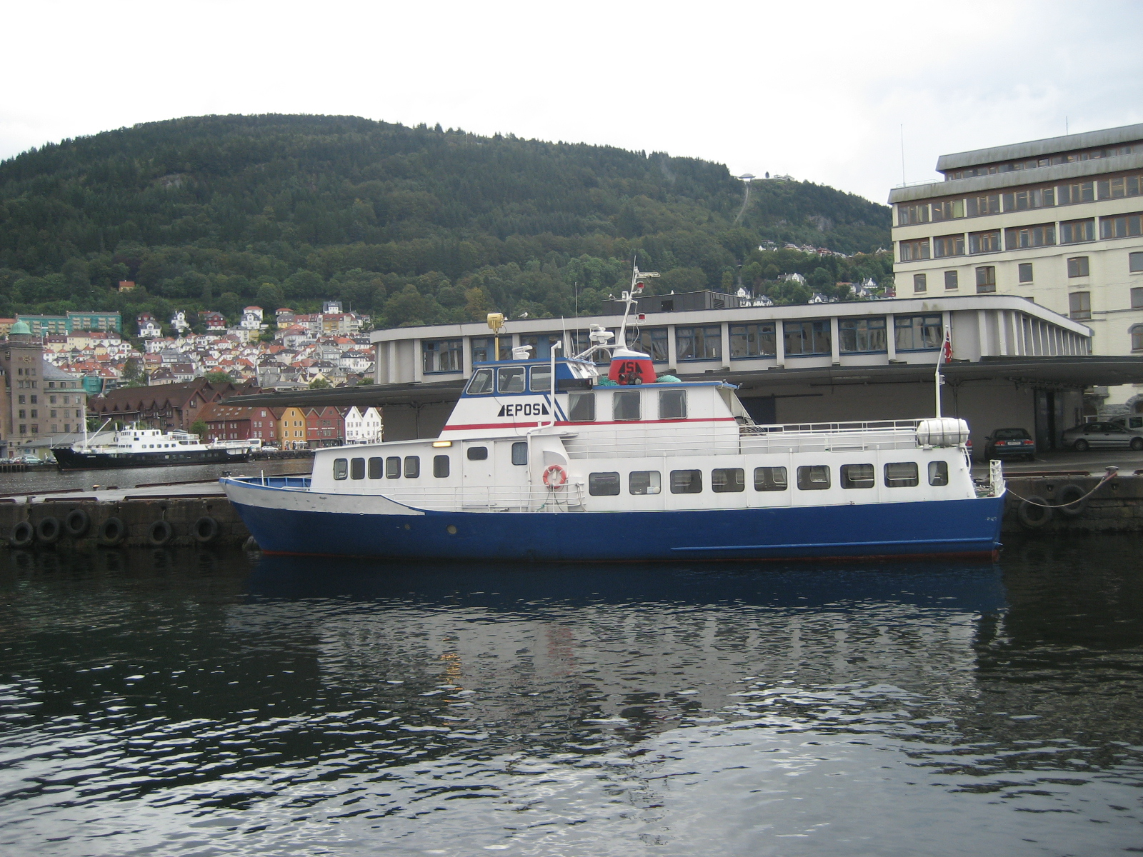 Mobile library boat MS Epos in Bergen, Norway.